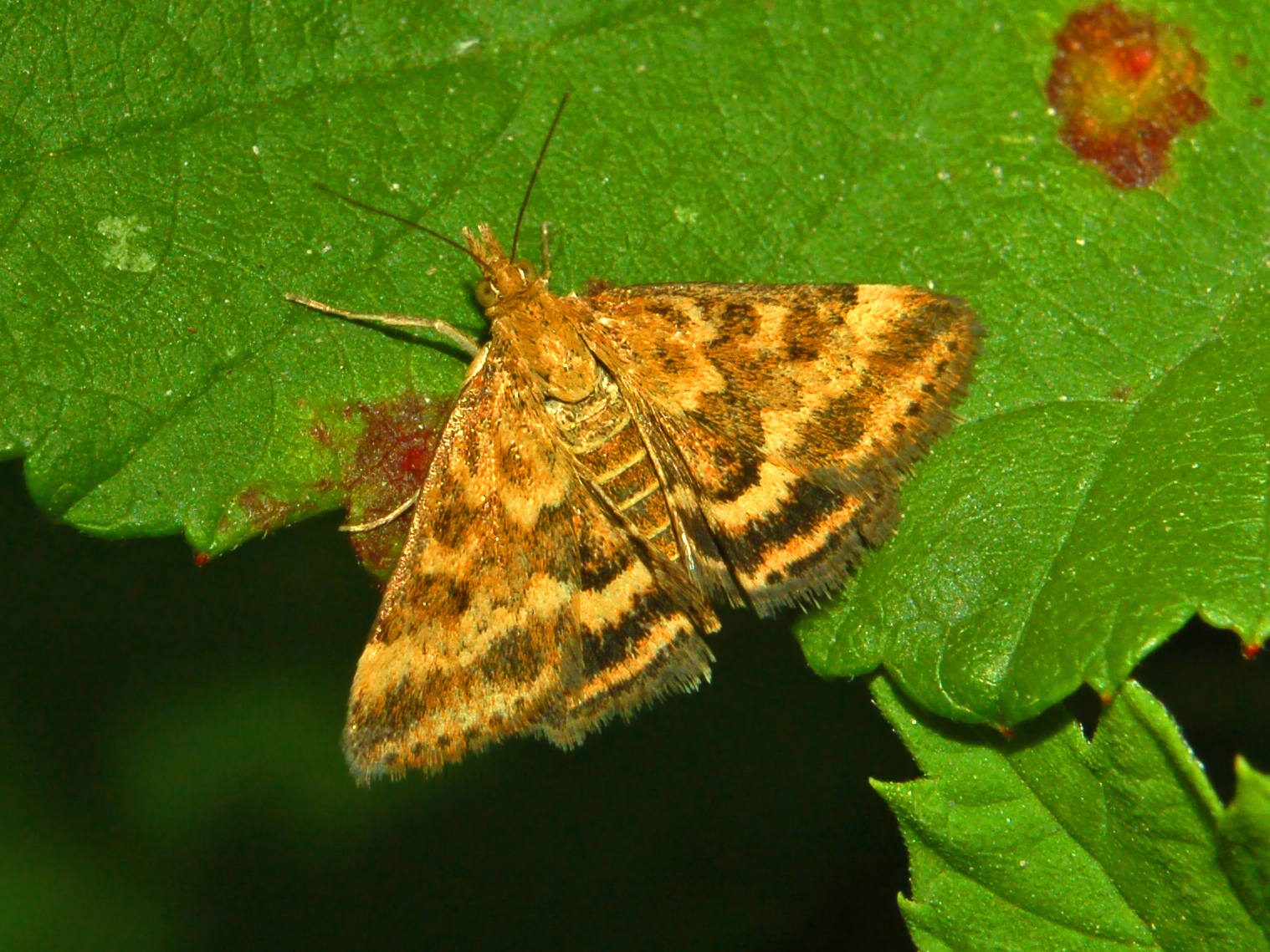 Pyrausta despicata. Pian dei Grilli, Genova, Italy